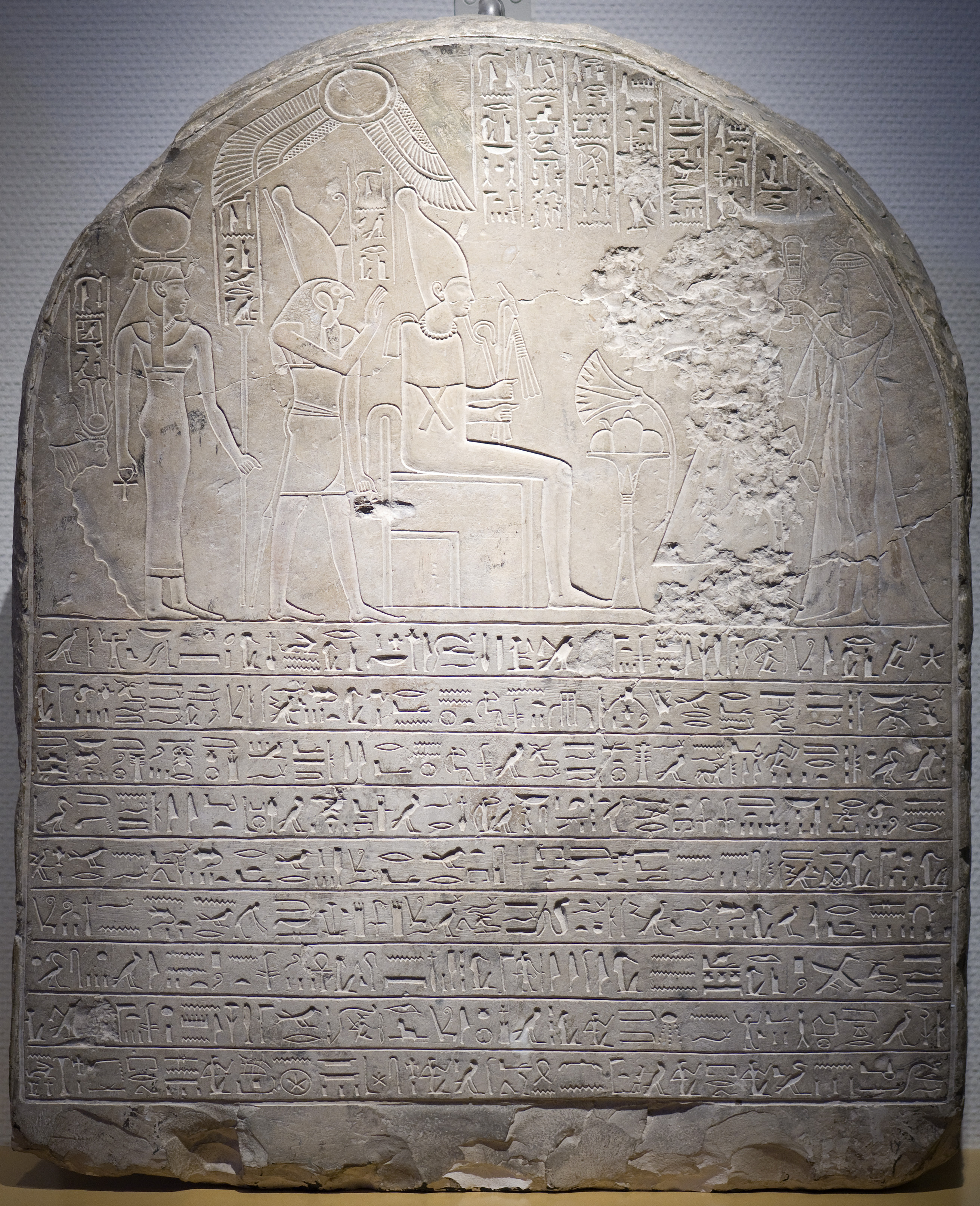 Round-topped stela, erased figure of [Heri]hor [ H. rj-]h. rw  (names partly erased), General, First prophet of Amun-Re king of the gods, and wifeNedjemt Ndmt , Chief of the harem of Amun-Re king of the gods, before seated Osiris followed    by Harsiusiri, Isis and Hathor as cow in mountain, and nine lines of hymn to Osiris, temp. Ramesses XI, in Leiden, Rijksmuseum van Oudheden, Inv. AP.16. Boeser, Beschreibung vi, 13 [50] Taf. xxviii; Schneider, H. D. and Raven, M. J. De Egyptische Oudheid (1981), 112-13 [113] fig.; Raven, M. J. Papyrus van bies tot boekrol (1982), fig. 41. Text, Piehl, Inscr. hiéro. 3 Sér. 27-9 pls. xxxviii-xxxix [S]; Kitchen, Ram. Inscr. vi, 846-7 [36, 4]. Names and titles, Lieblein, Dict. No. 991. See Leemans, Descr. rais. 283 [V.65]; Wiedemann, A. in ZÄS xxiii (1885), 82-3 [7]; Boeser, Cat. (1907), 55 [14].